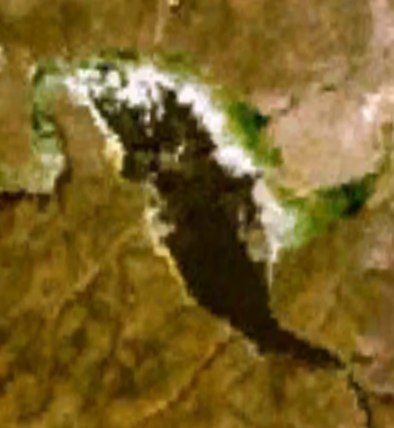 Thief Valley Reservoir in Oregon, USA NASA NLT Landsat 7 image. Final image made using NASA World Wind.